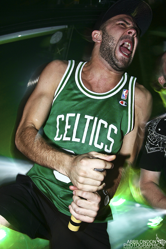 Despised Icon Live @ Leeds Ghostfest 2009